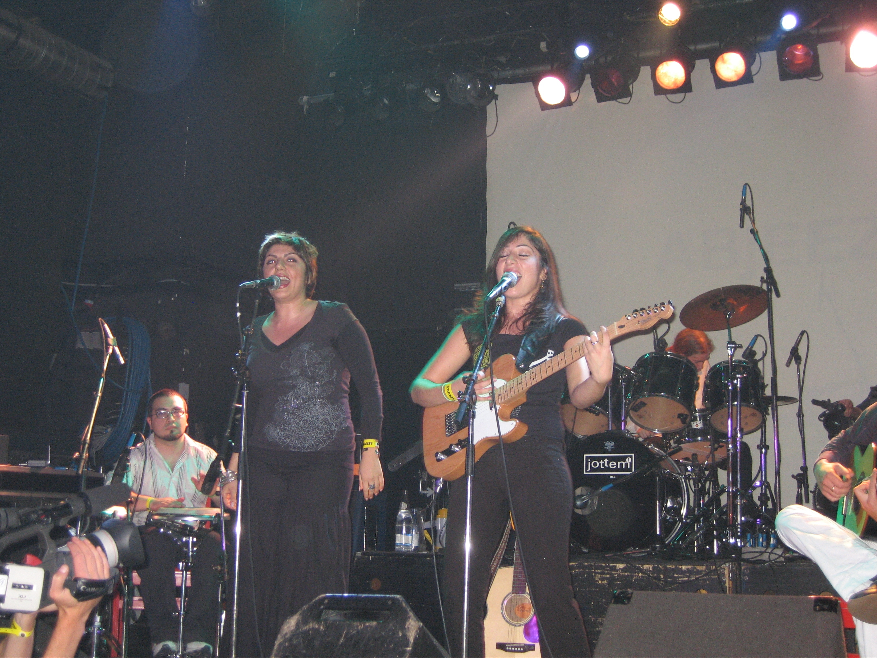 Persian music Band Abjeez in Iranian Intergalactic Music Festival, 22nd Oktober 2006, Zaandam, the Netherlands. Picture taken by Babak Amirkhani and provided for Wikicommons by Mani Parsa. hi